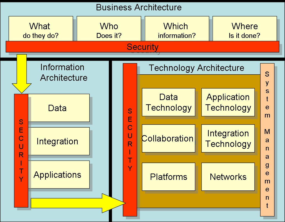 Own view of Enterprise Information Security Architecure(EISA) Framework.